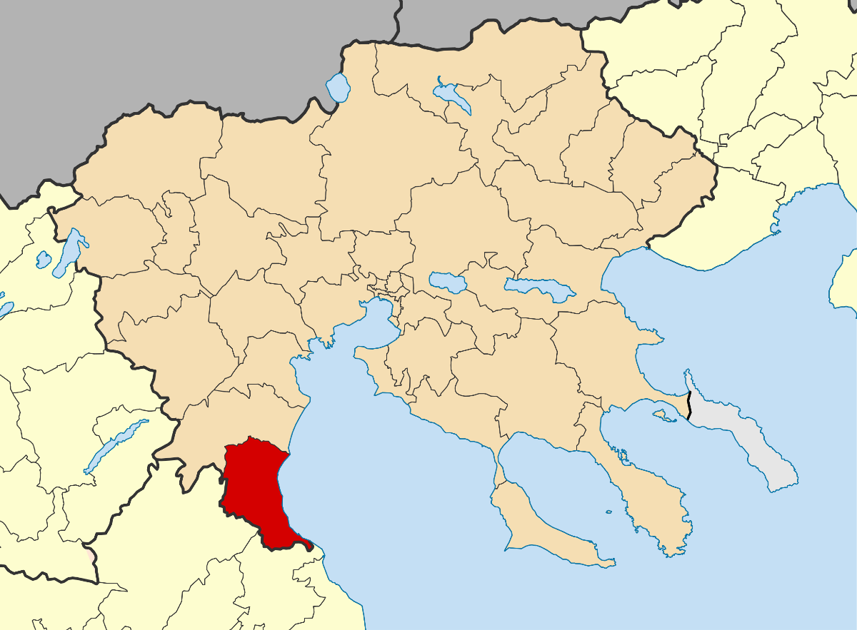 Locator map for Dion-Olymbos municipality in Greek region Central Macedonia (2011)